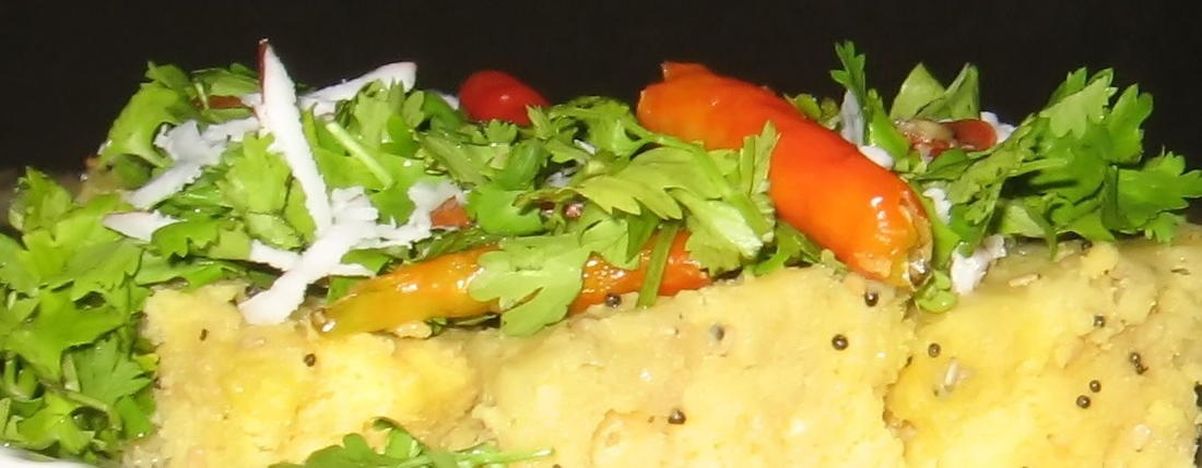 'Khaman dhokla' are steam-baked sour cakes that are a common vegetarian snack in Western India.